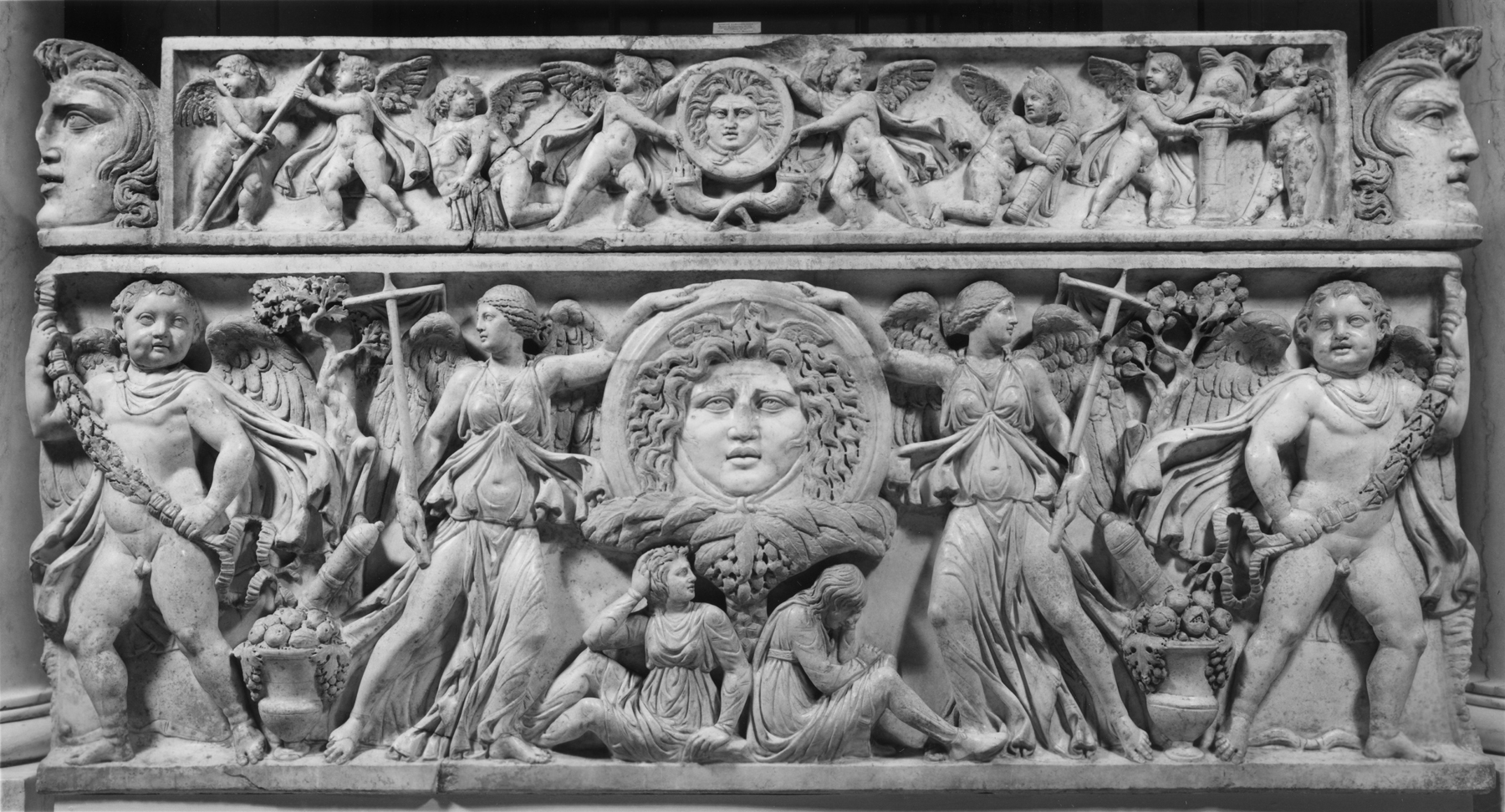 The scene on the front of this sarcophagus, carved in high relief, shows two figures of Victory holding standards and flanking a large shield decorated with a Gorgon's head. As is typical in Roman illustrations of triumphs, figures representing vanquished barbarian prisoners are seated below the central shield. Both prisoners are female; the one on the right appears lost in grief, while the figure on the left sits proudly with her head raised. Towards the corners, large Eros figures carry garlands of laurel. Across the front of the lid, winged Eros figures imitate the central scene below, while others erect a trophy from captured armor. The symbolism of the whole celebrates the victory of life over death.